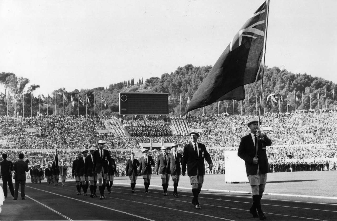 New Zealand at the Opening Ceremony of the Rome Olympics